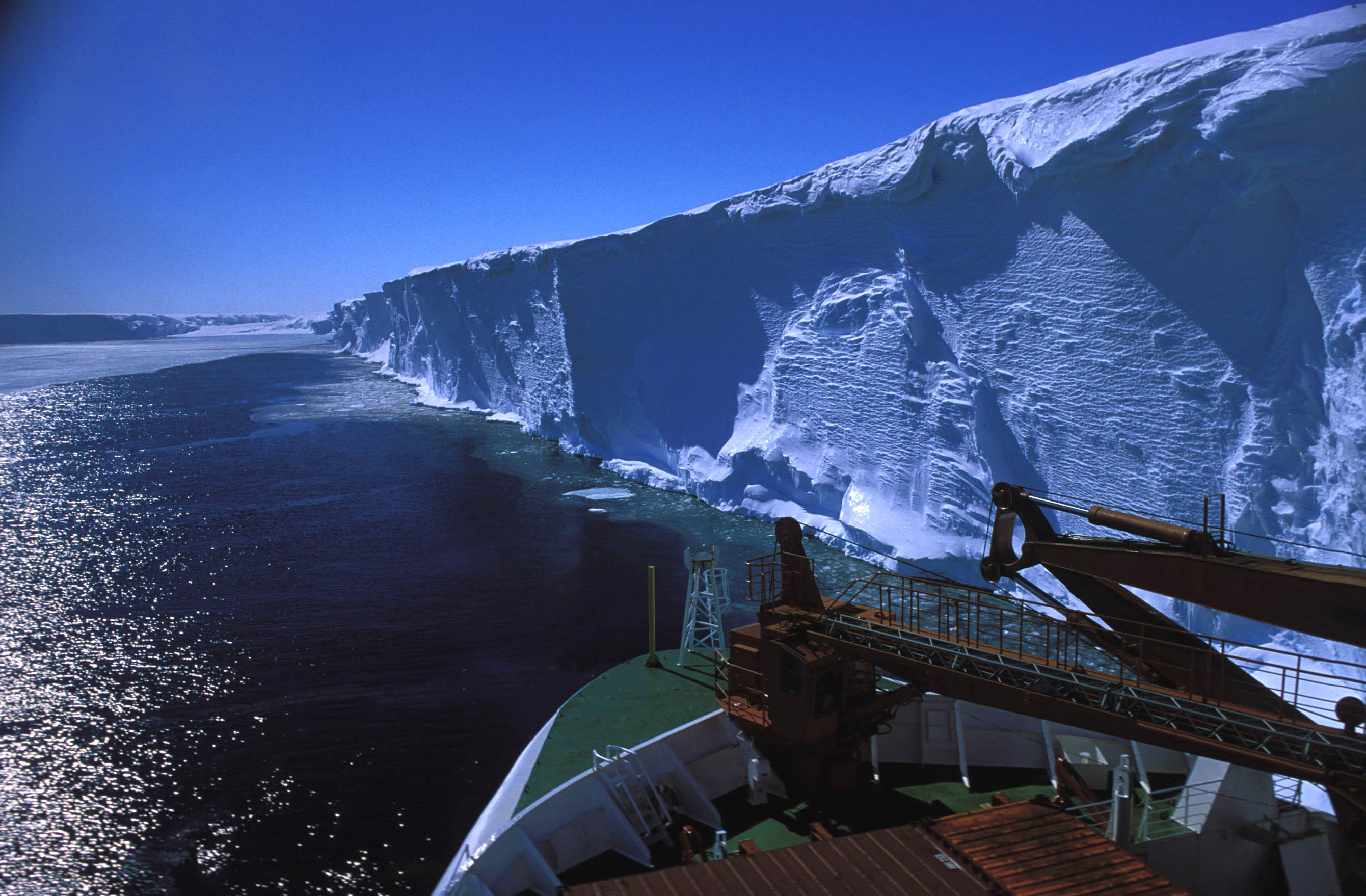 Edge of Ekstroem shelf ice